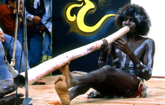 Image (photograph) taken by Official Nambassa Photographer and uploaded by User:Mombas, Nambassa dot com Terms of Use: 1/ All users of this image are required to attribute this work to "Nambassa Trust and Peter Terry" and the url: " " is to acompany all use. 2/ Attribution. You must attribute the work in the manner specified by the author or licensor. 3/ For any reuse or distribution, you must make clear to others the license terms of this work. Statement by Nambassa Trust and Peter Terry